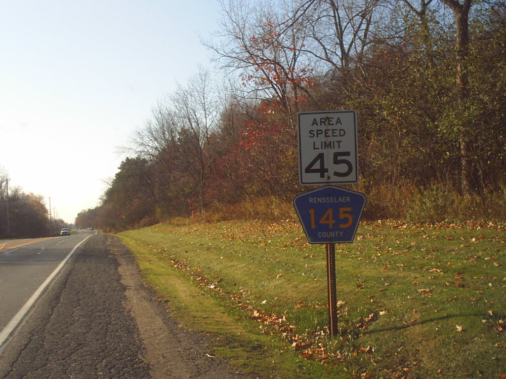 Signage along New York State Route 40 marking the County Route 145 designation through the town of Brunswick, New York.